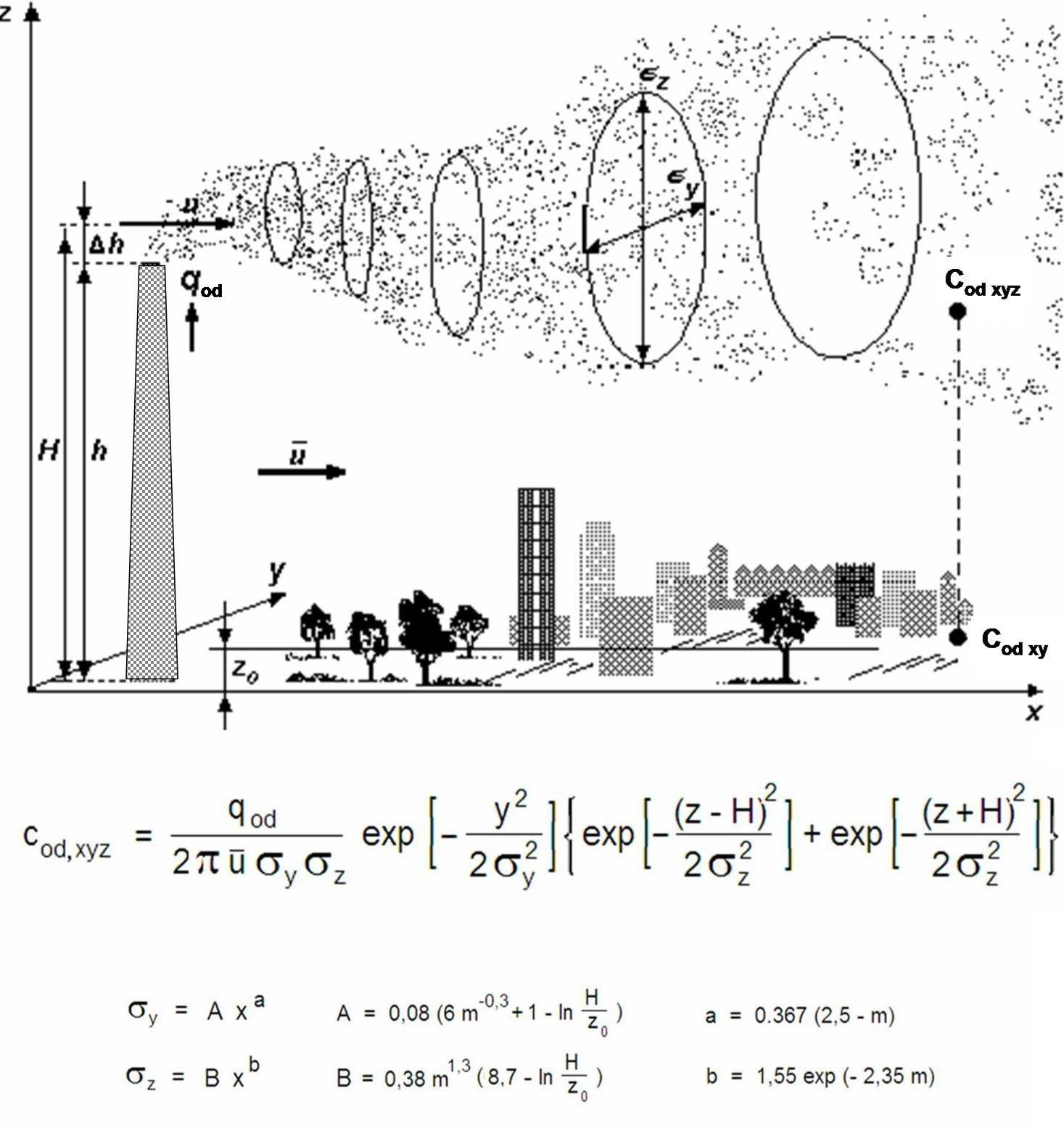 A Gaussian Plume Model of Odor Dispersion